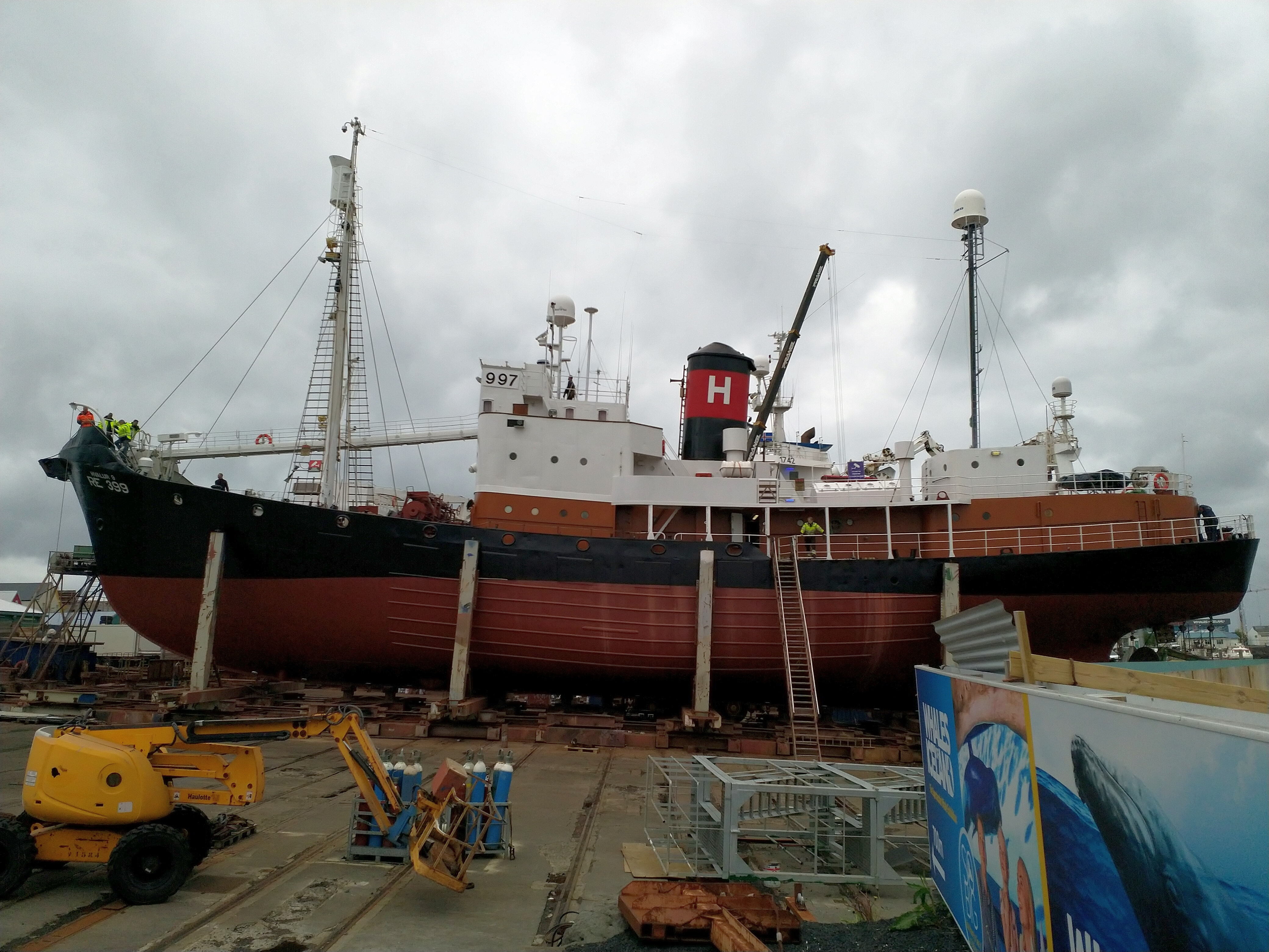 Whaling vassel Hvalur 9 RE 399 in Reykjavík.